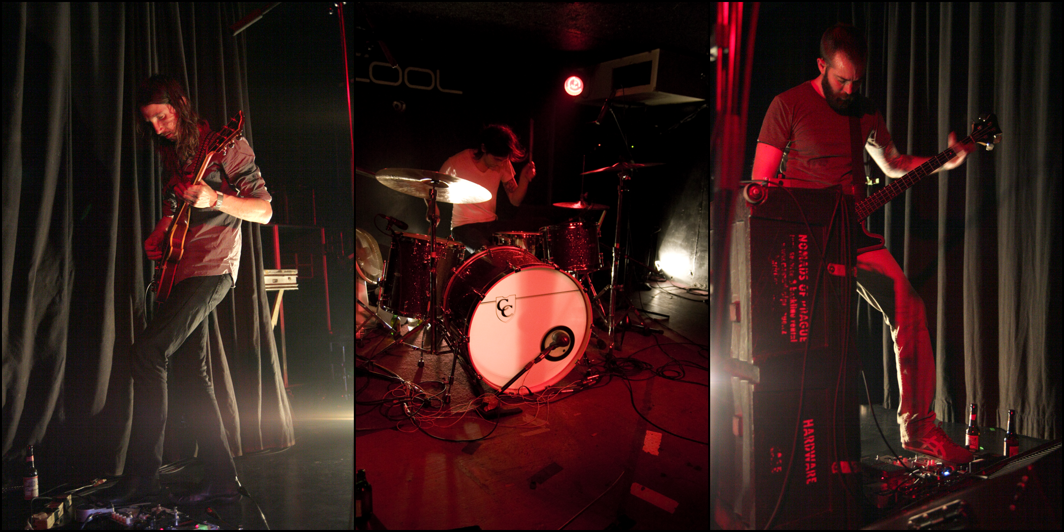 A montage of the post-metal band Russian Circles while touring in Barcelona, Spain.